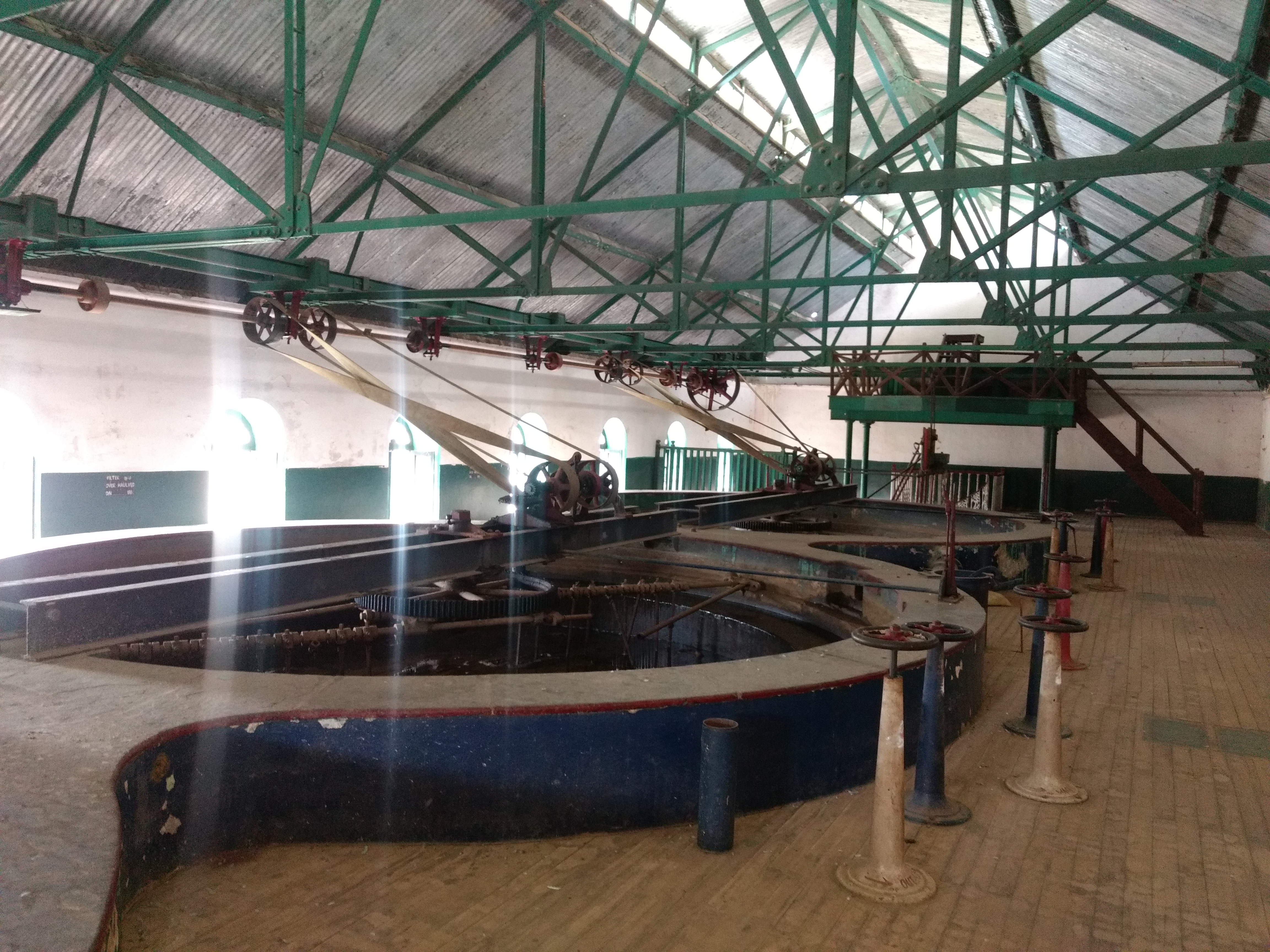 Jewell filter top view at Bethamangala water works